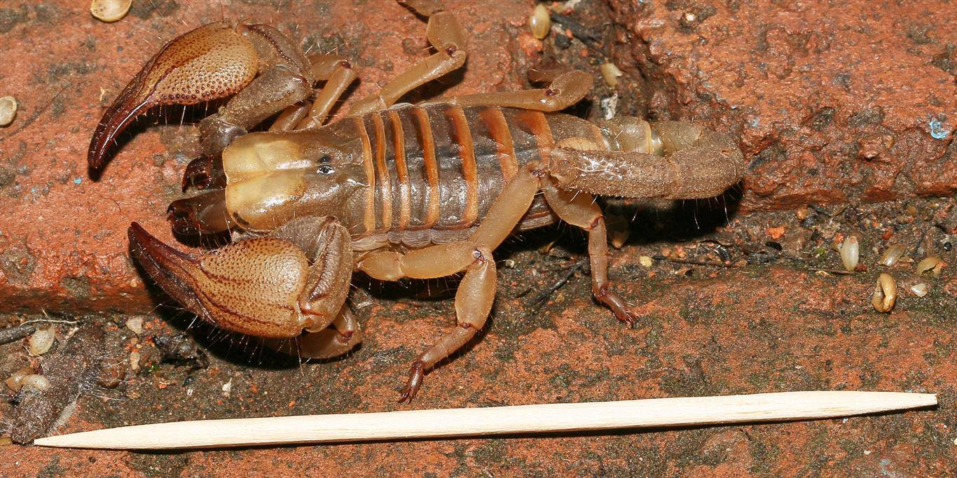 Opistophthalmus glabrifrons - Limpopo Province, near Bela Bela, South Africa